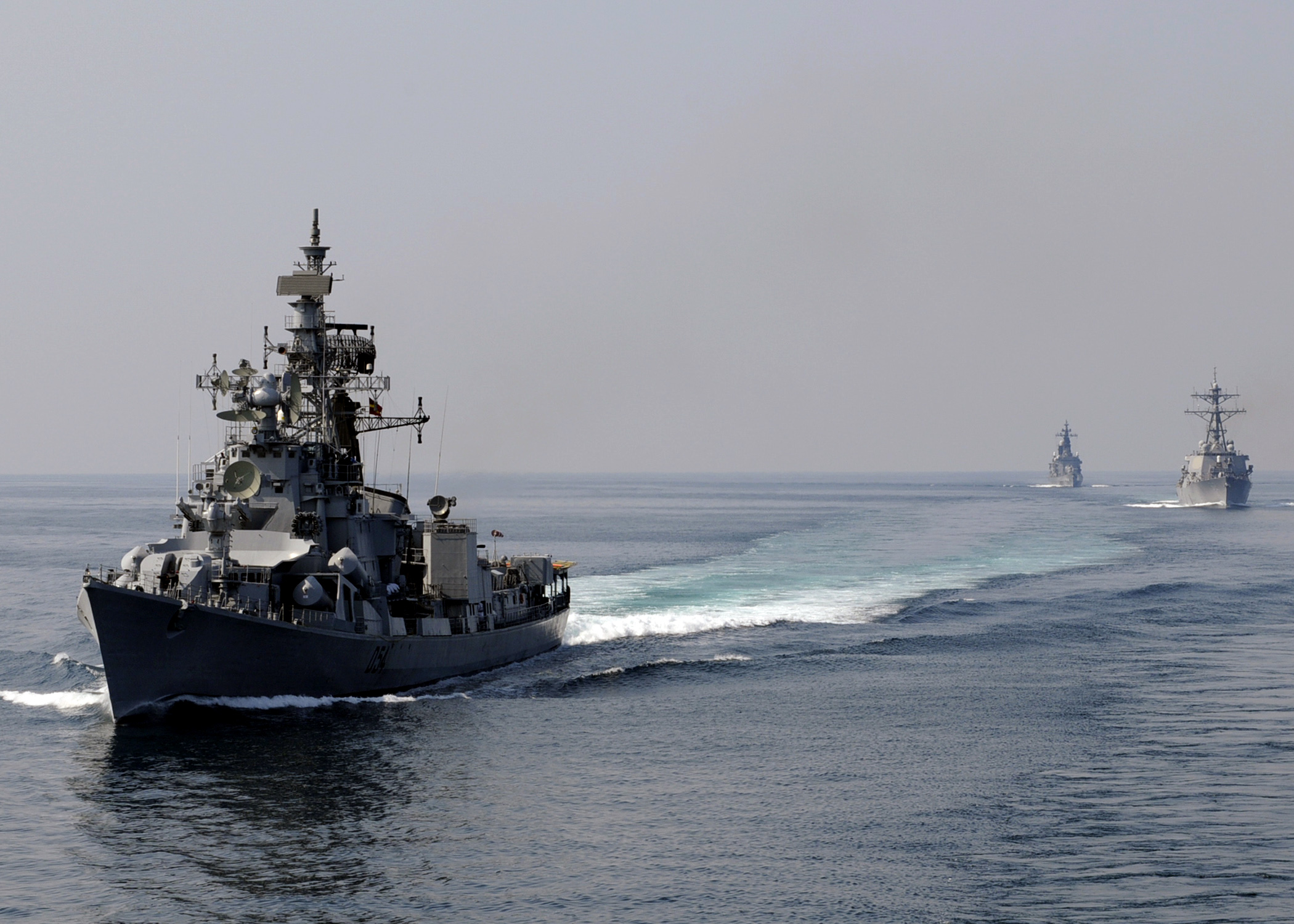 090429-N-7478G-314 PACIFIC OCEAN (April 29, 2009) The Indian Navy guided-missile destroyer INS Ranvir (DDG 54) leads the Arleigh-Burke class destroyer USS Fitzgerald (DDG 62) and the Japan Self-Defense Force destroyer JDS Kurama (DDH 144) during Exercise Malabar 2009, an annual exercise led by the Indian Navy.